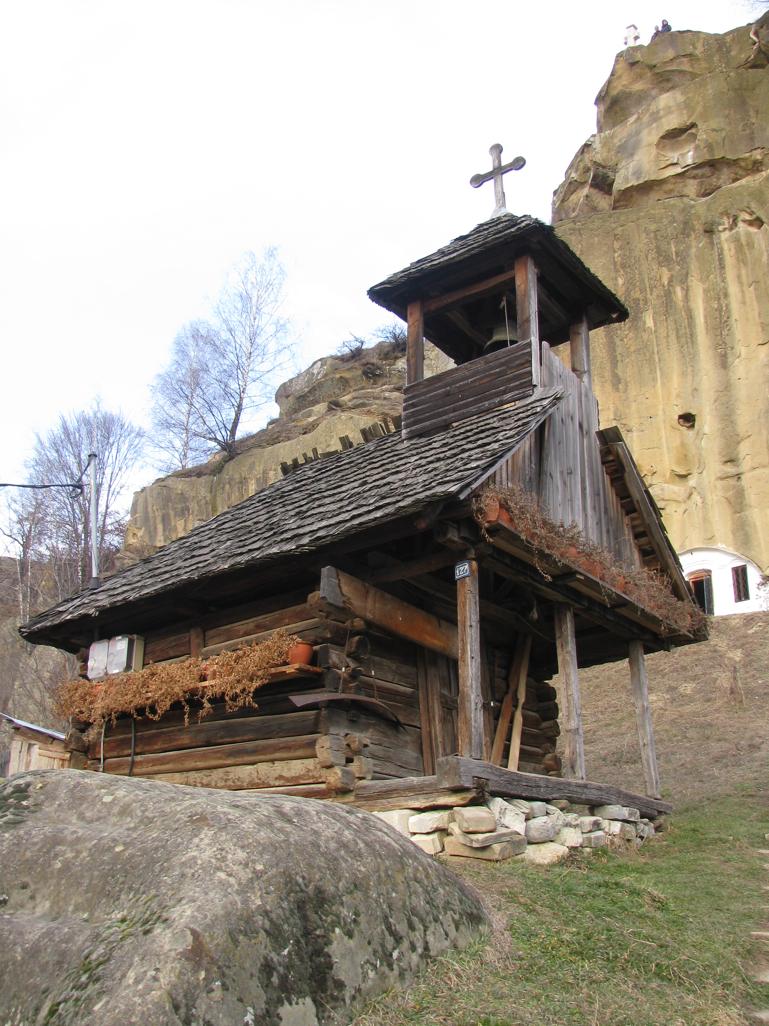 Wooden church from Jgheaburi village, Corbi commune, Argeș county, Romania